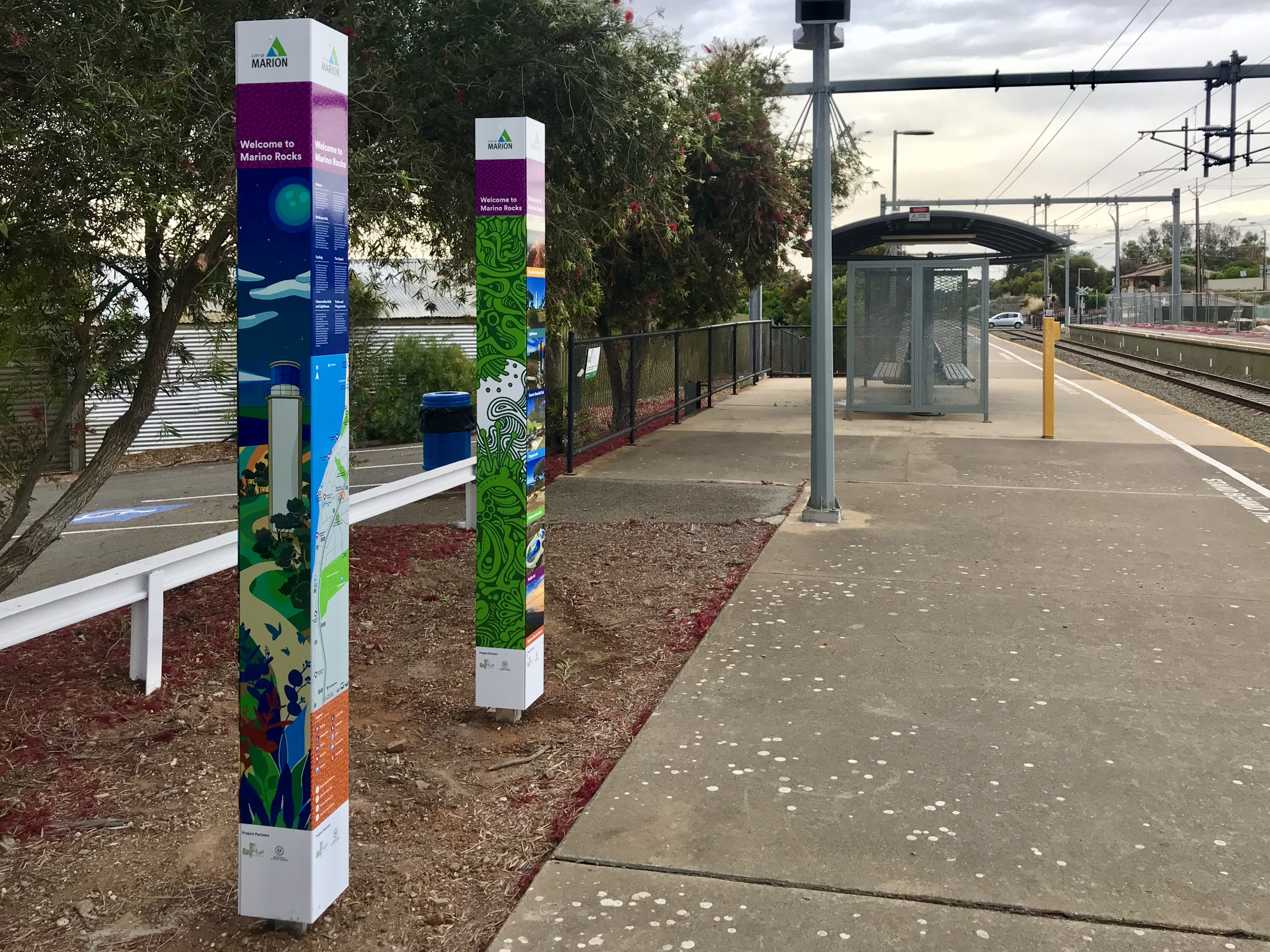 Marion Council signage at Marino Rocks station featuring a map and list of things to do and see, plus local artwork.